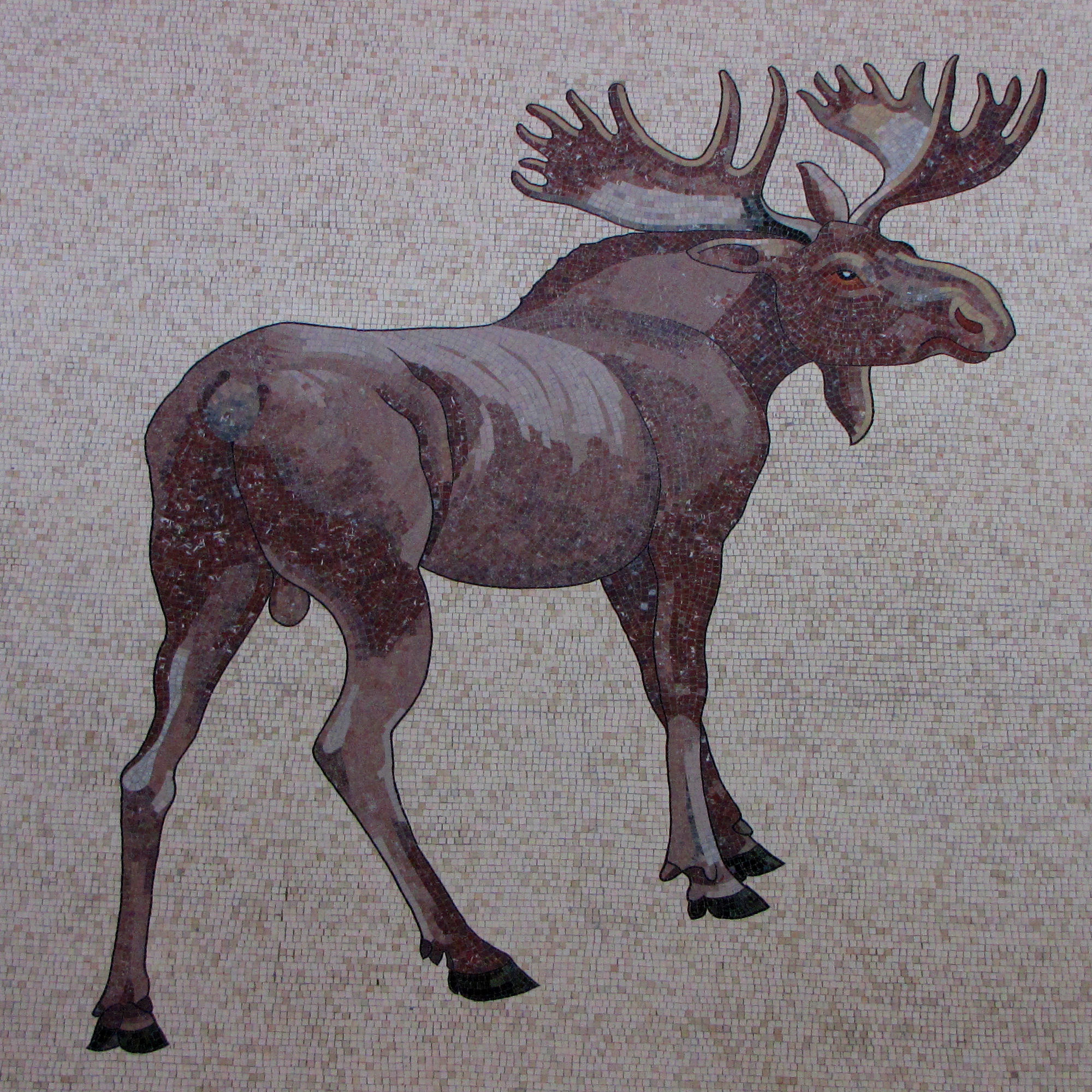 Bull Moose mosaic at front entrance to the Canadian Museum of Nature